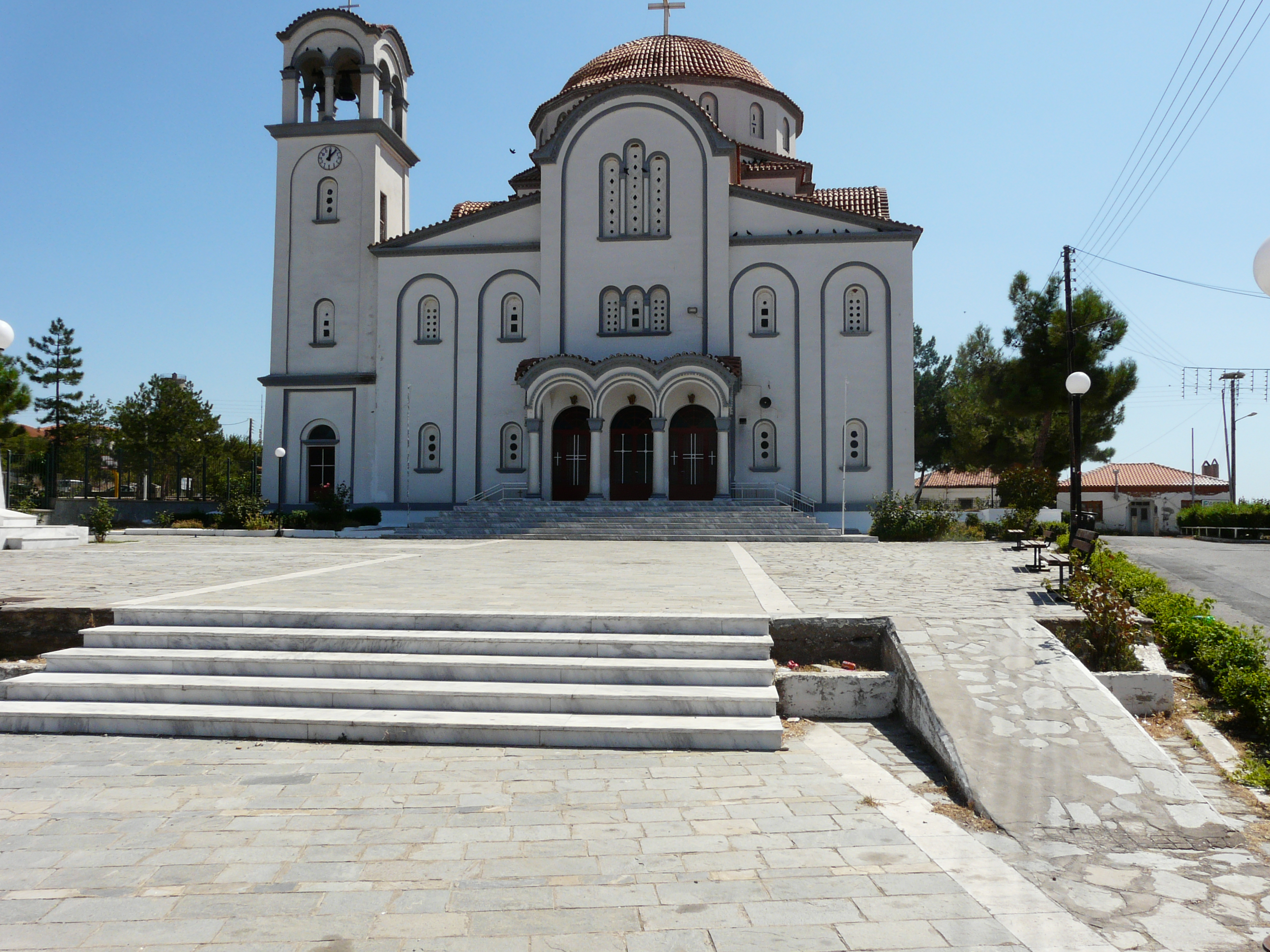 Church in Peplos